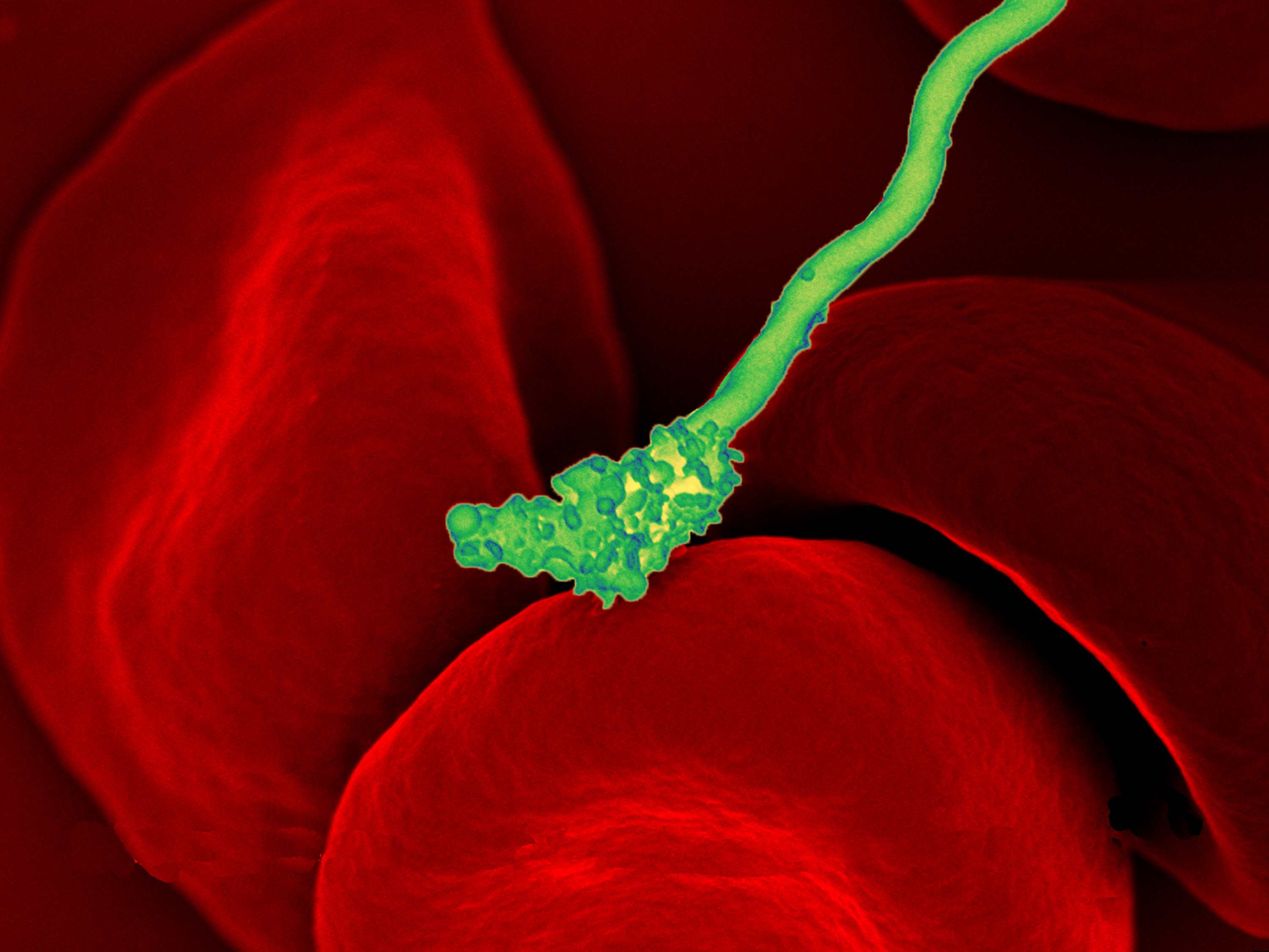 Scanning electron micrograph of Borrelia hermsii, the causative agent of relapsing fever, interacting with red blood cells. Credit: NIAID